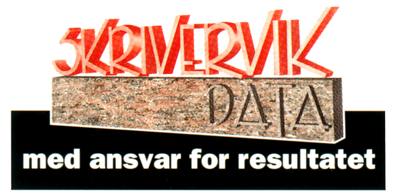 Skrivervik Data logo ca. 1990